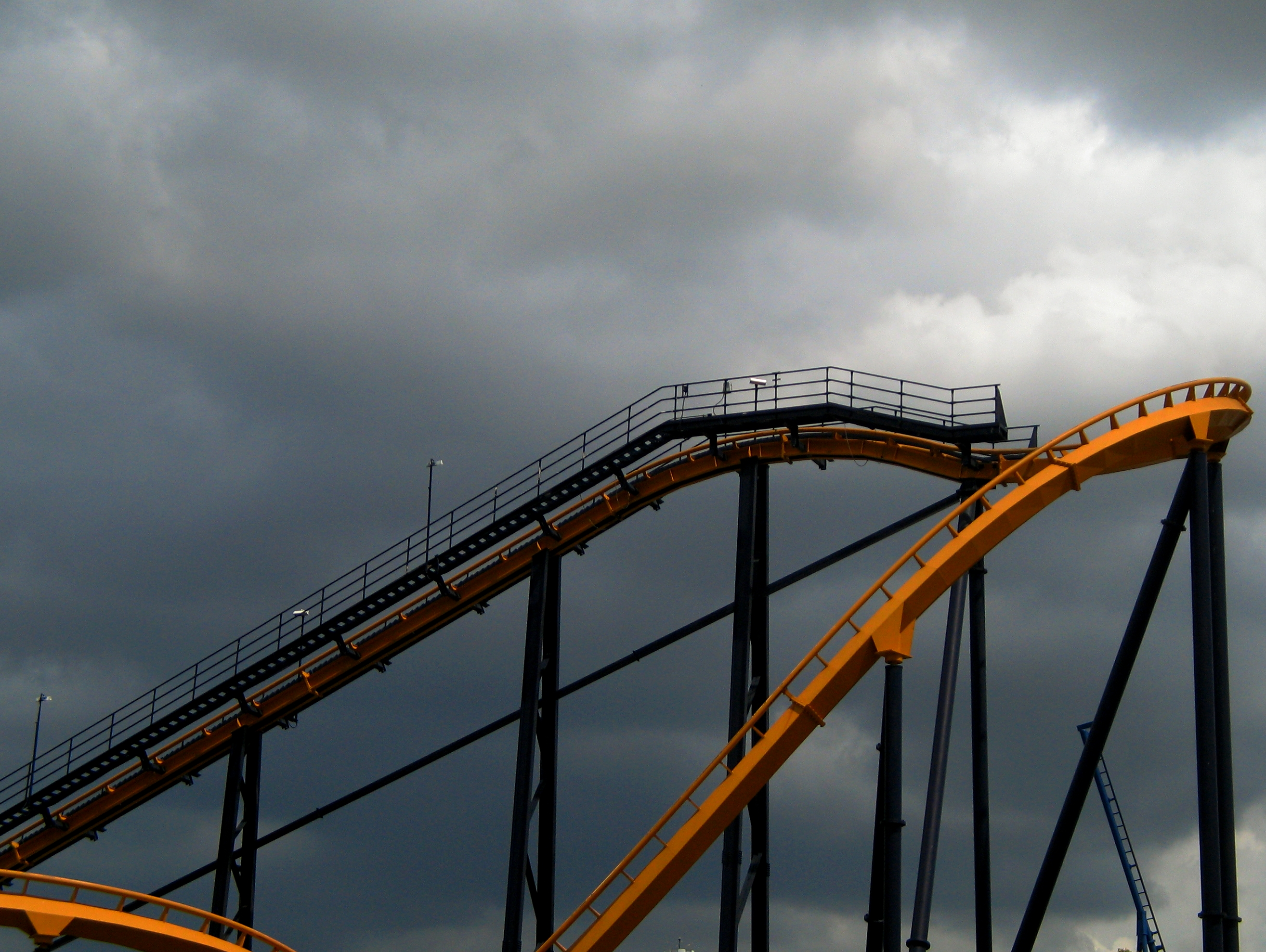 The top of the lift hill.